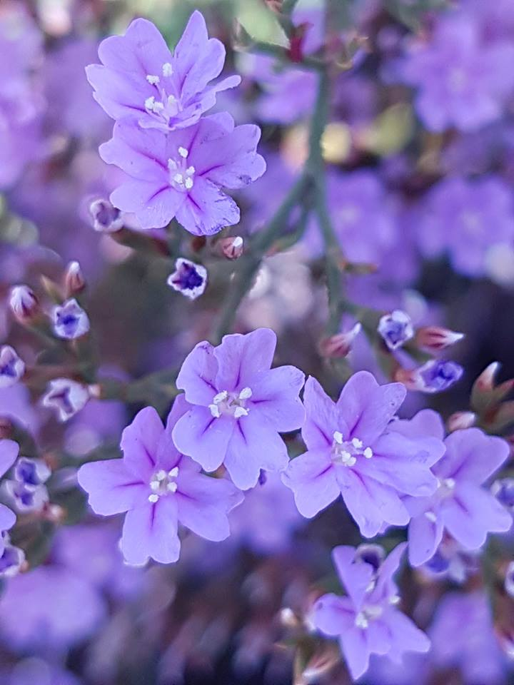 Limonium scabrum Kuntze - on seashore at Nature's Valley, Cape Province, South Africa